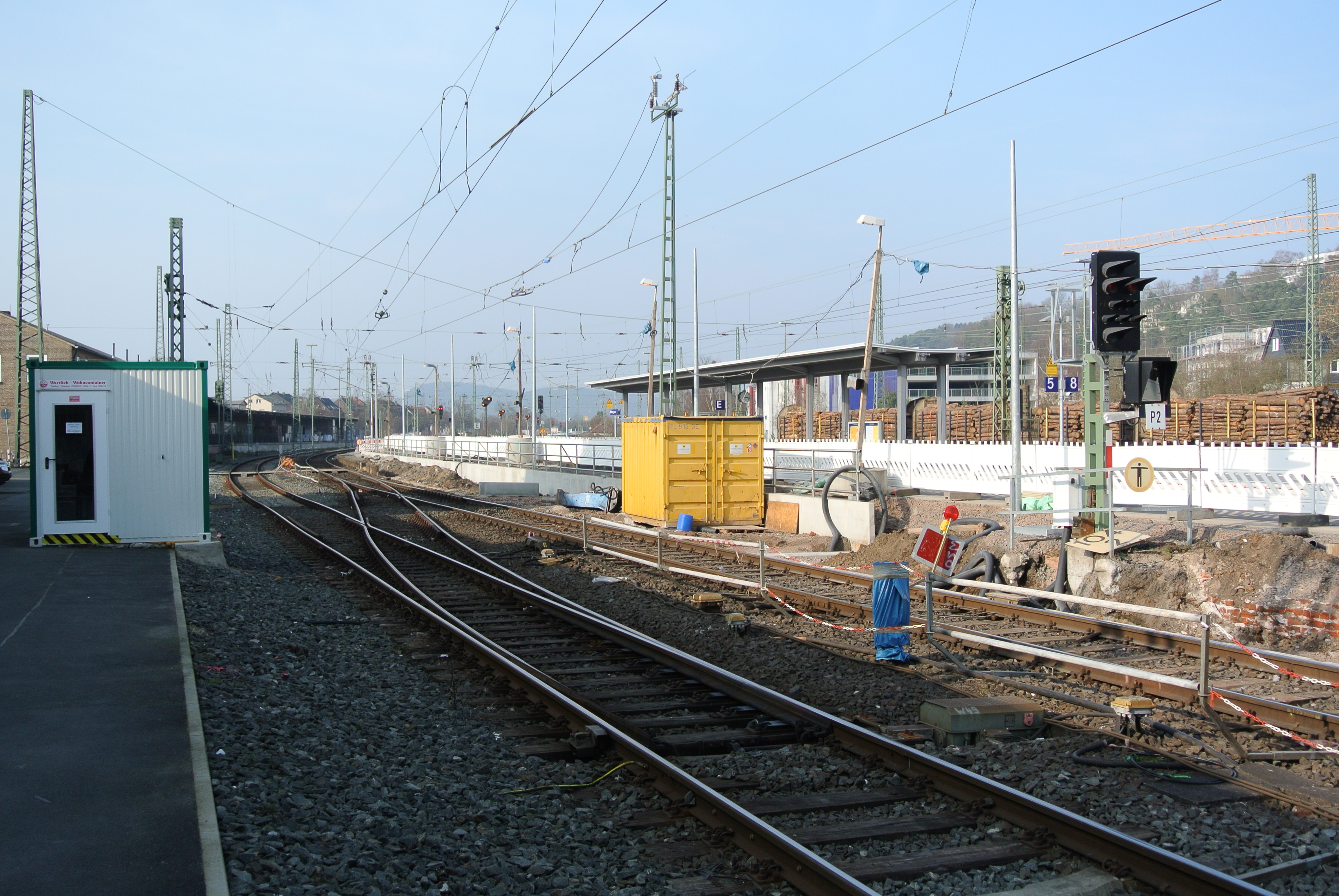 Tracks at Marburg station, view towards north.